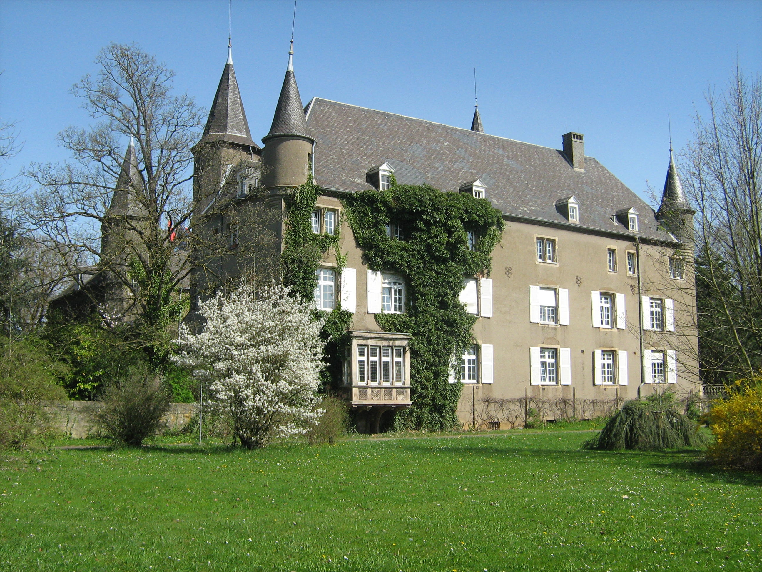 Differdange Castle in the south of Luxembourg. Now Miami University's (Oxford, OH, USA) John E. Dolibois European Center in Luxembourg (MUDEC)